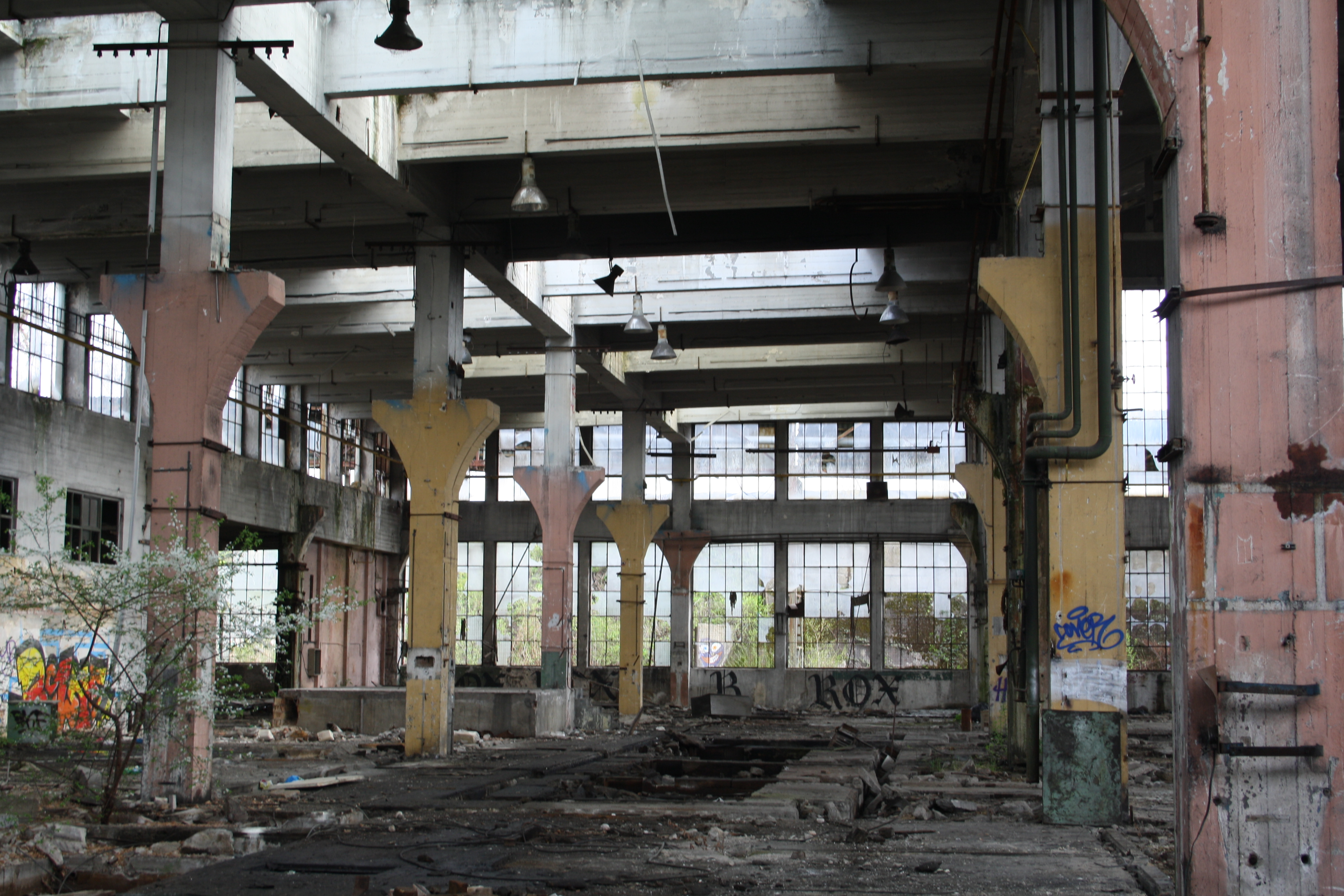 Ruins of the factory - interior of the hall